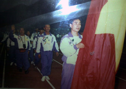 Võ sư Lê Văn Thạnh: Huấn luyện viên trưởng kiêm Trưởng đoàn VN tham gia giải Vô địch Trẻ Châu Á lần thứ 6/2002 tại Nhật Bản